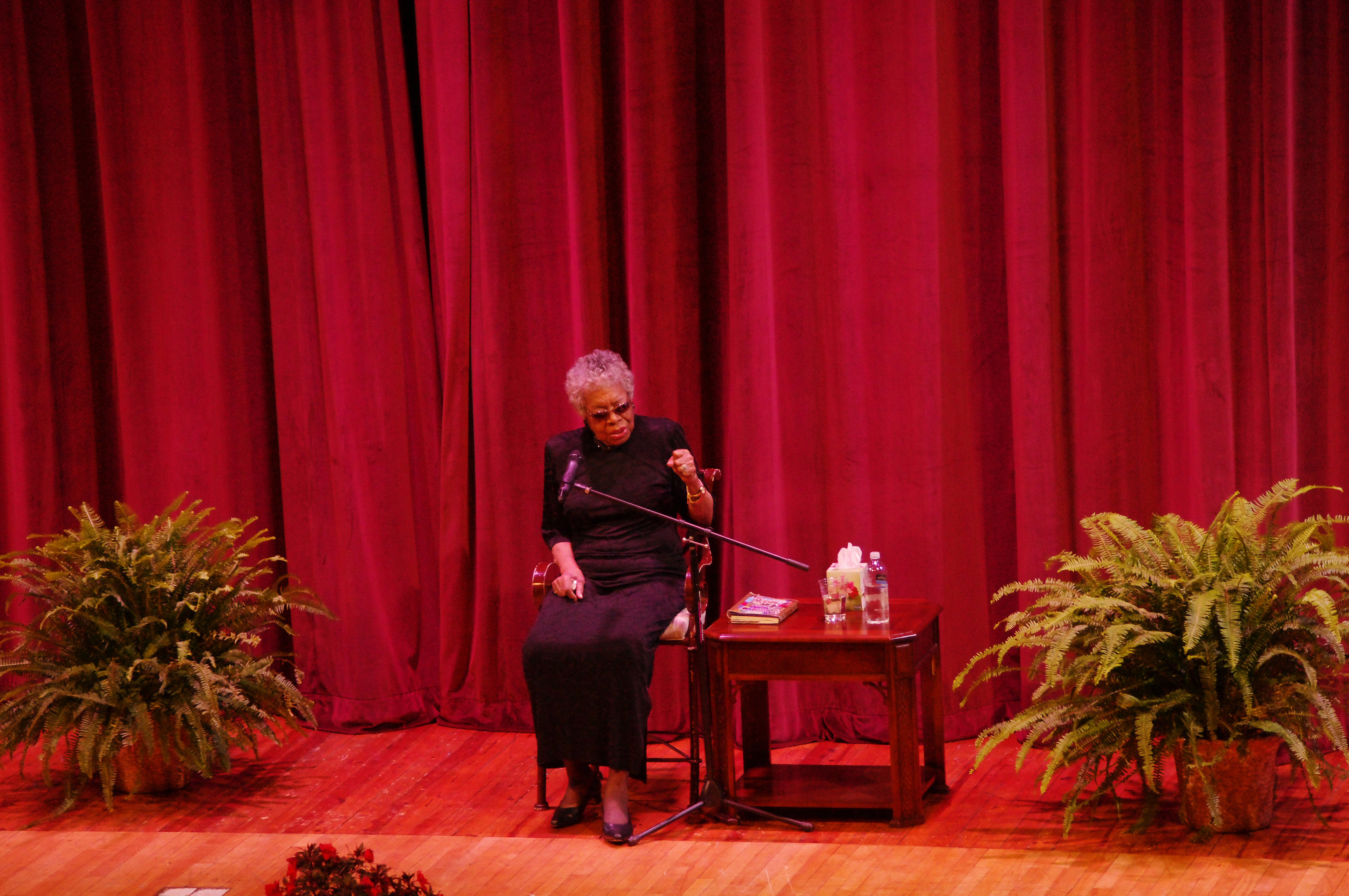 Poet and activist Maya Angelou speaking at Tennessee Technological University in Cookeville, Tennessee, United States